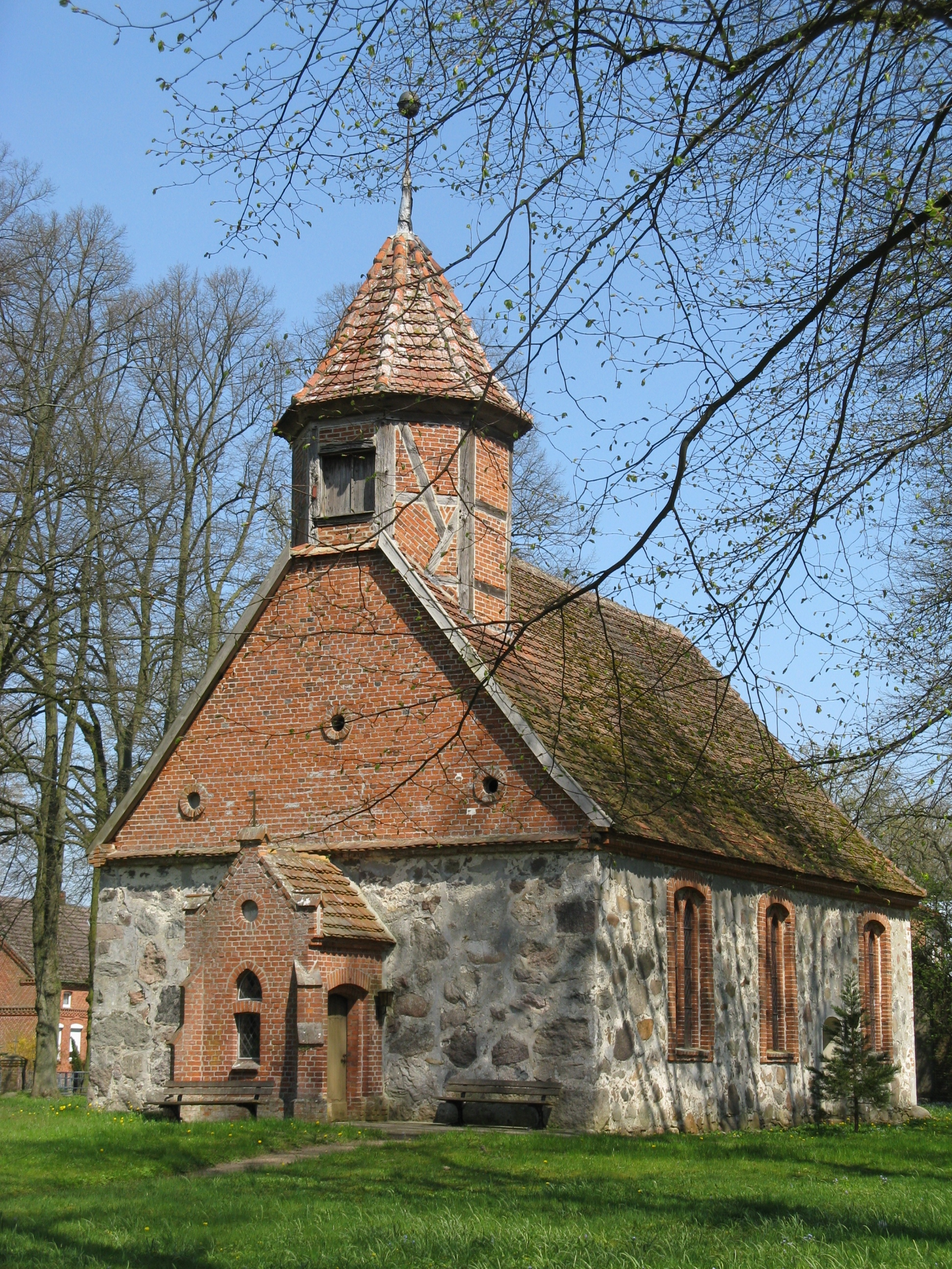 Church in Herzfeld, district Ludwigslust-Parchim, Mecklenburg-Vorpommern, Germany